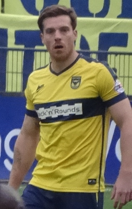 Johnny Mullins playing for Oxford United against York City at Bootham Crescent, York on 15 November 2014